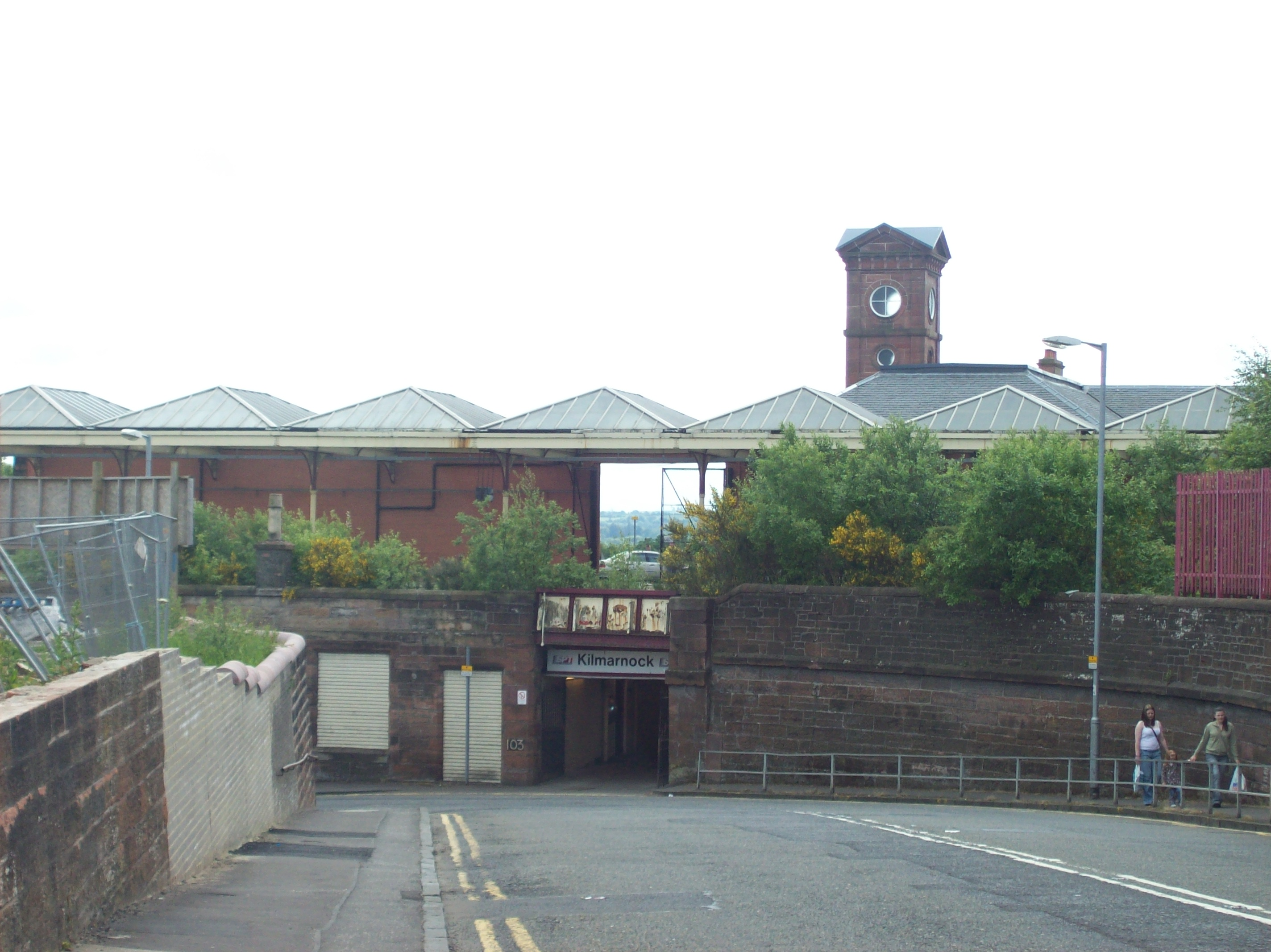 English